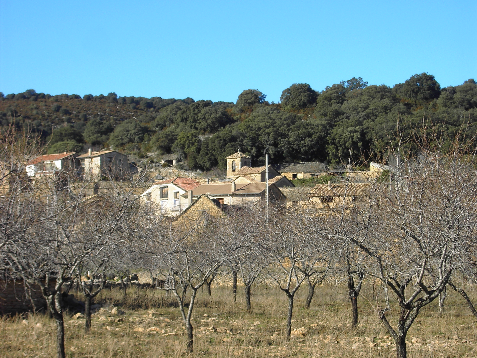 Betorz, belongs to the municipality of Barcabo, Huesca, Spain.